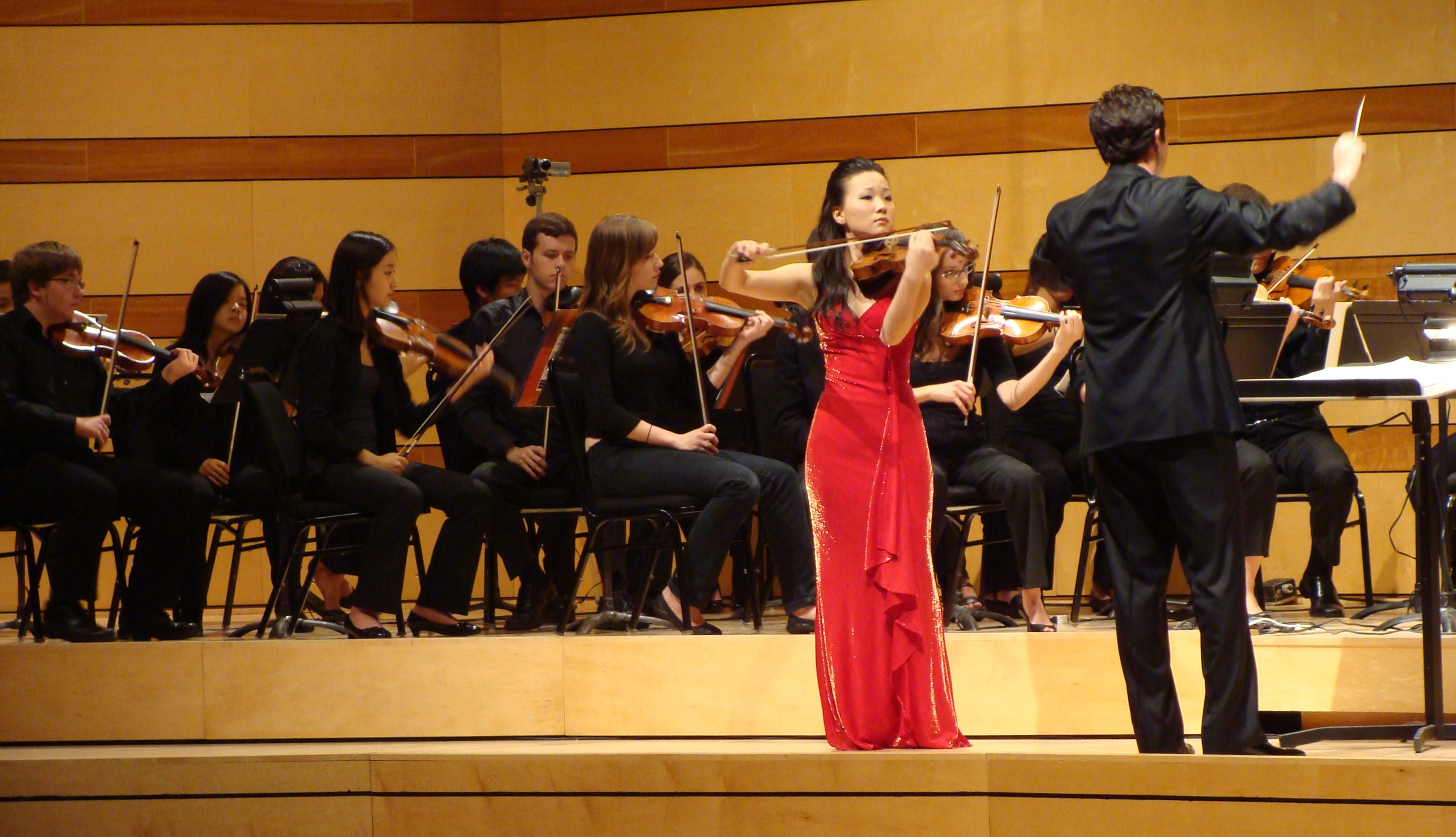 Hyerin Kim on the violin, with The Aspen Concert Orchestra, playing Piazolla/Leonid Desyatnikov, from Cuatro estaciones portenas (The Four Seasons of Buenos Aires). Aspen Music Festival and School, August 16, 2010